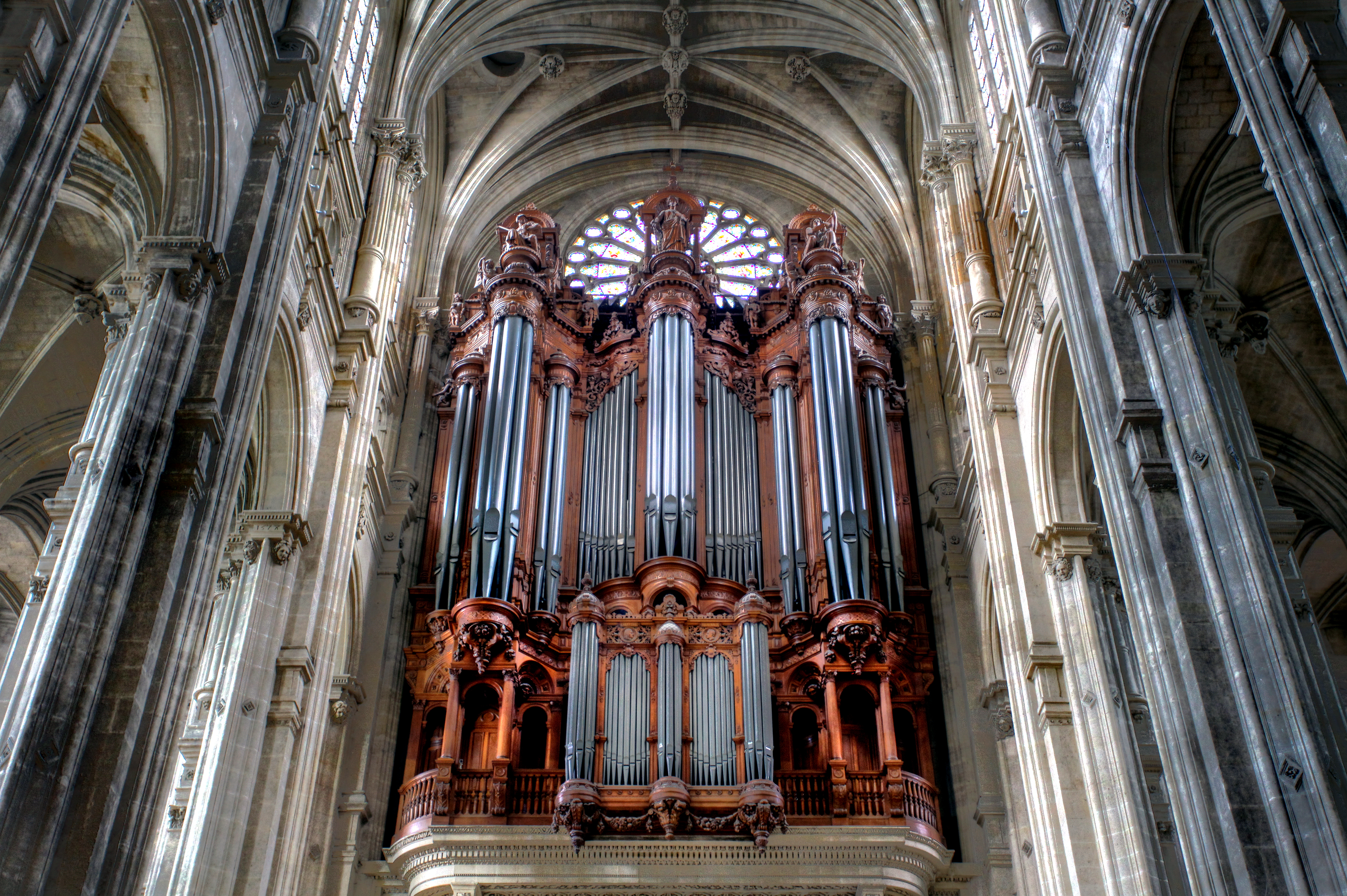 Organ in Saint-Eustache Cathedral, Paris, France. Photo by Michael D. Hill Jr. Canon 5d + 17-40 F4L - Handheld